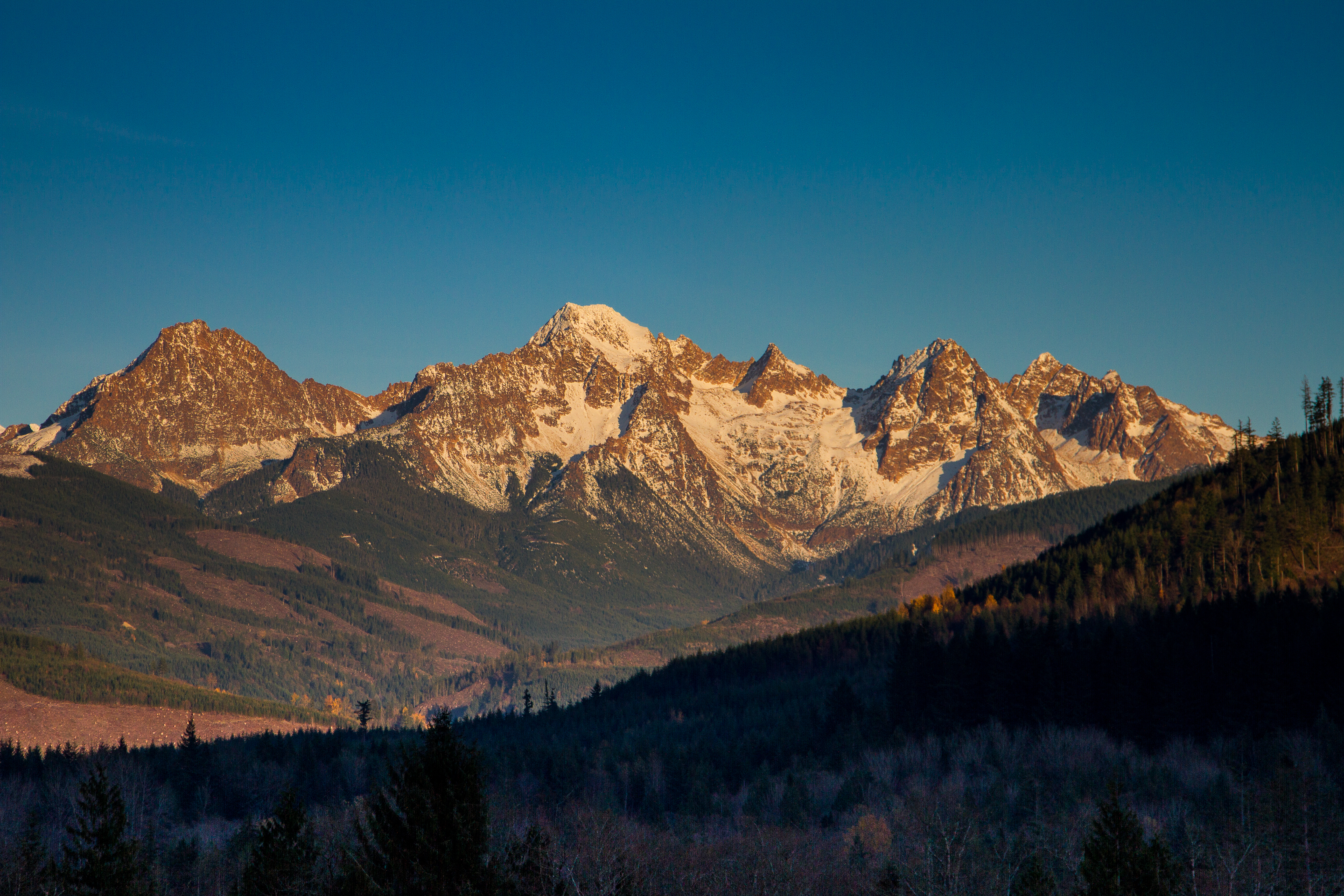 Twin Sisters west aspect